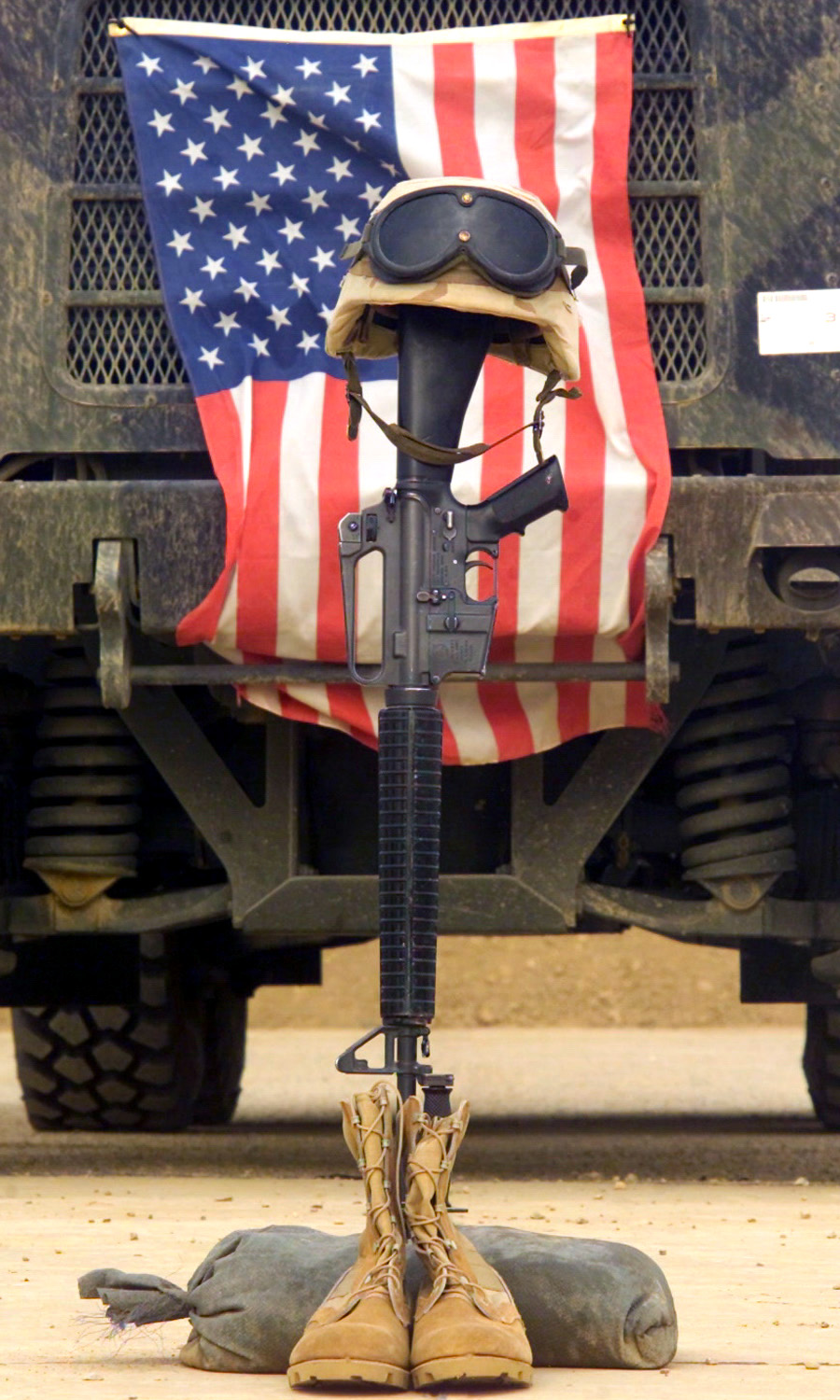 Qalat Sikar Air Base, Iraq (Apr. 27, 2003) – An M16-A2 service rifle, a pair of boots and a helmet stand in tribute to a fallen Marine Corps Sergeant assigned to Marine Wing Support Squadron Three Seven One (MWSS-371), killed in action in Iraq during Operation Iraqi Freedom. U.S. Marine Corps photo by Lance Cpl. Jonathan P. Sotelo. (RELEASED)